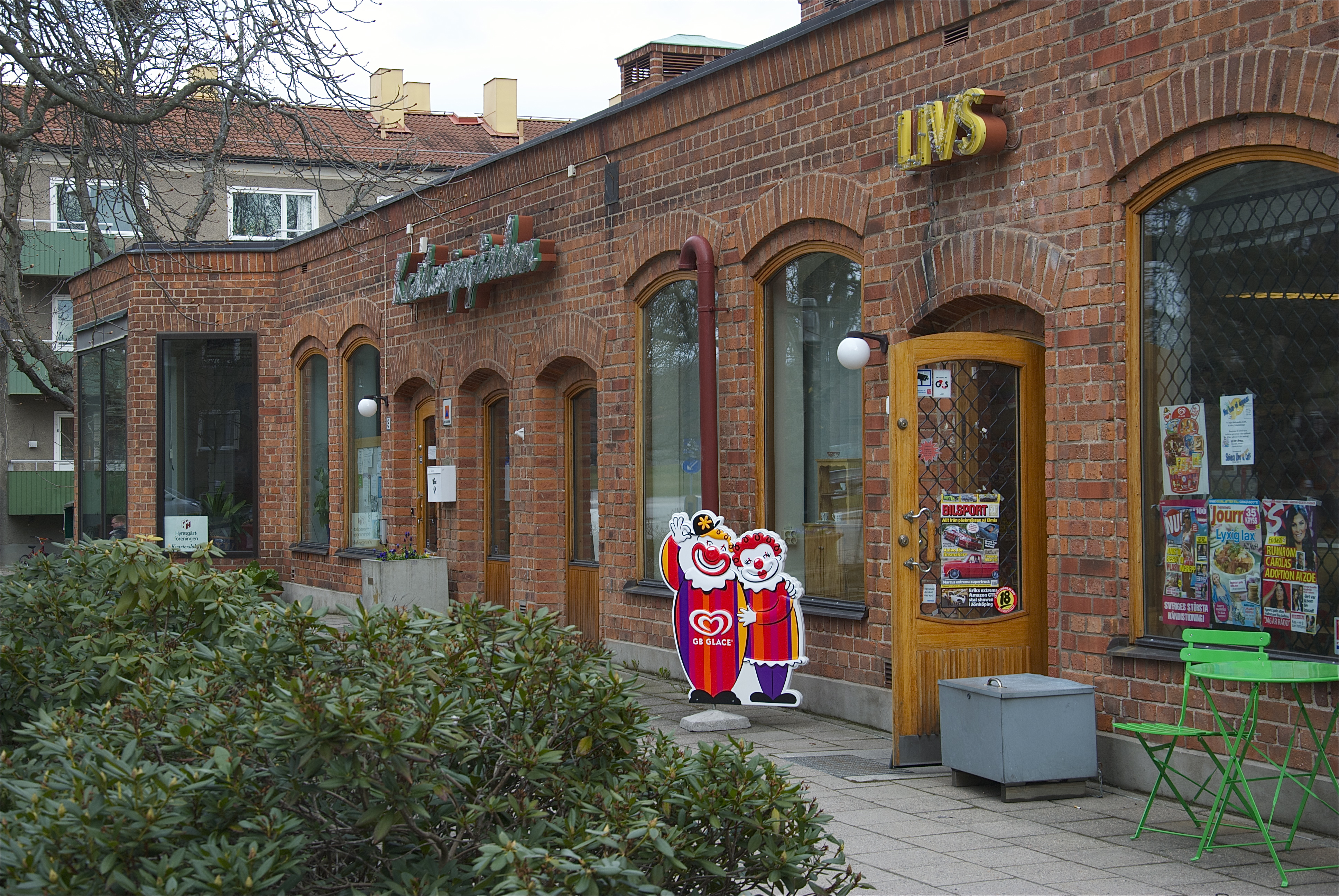 Kastanjegården.